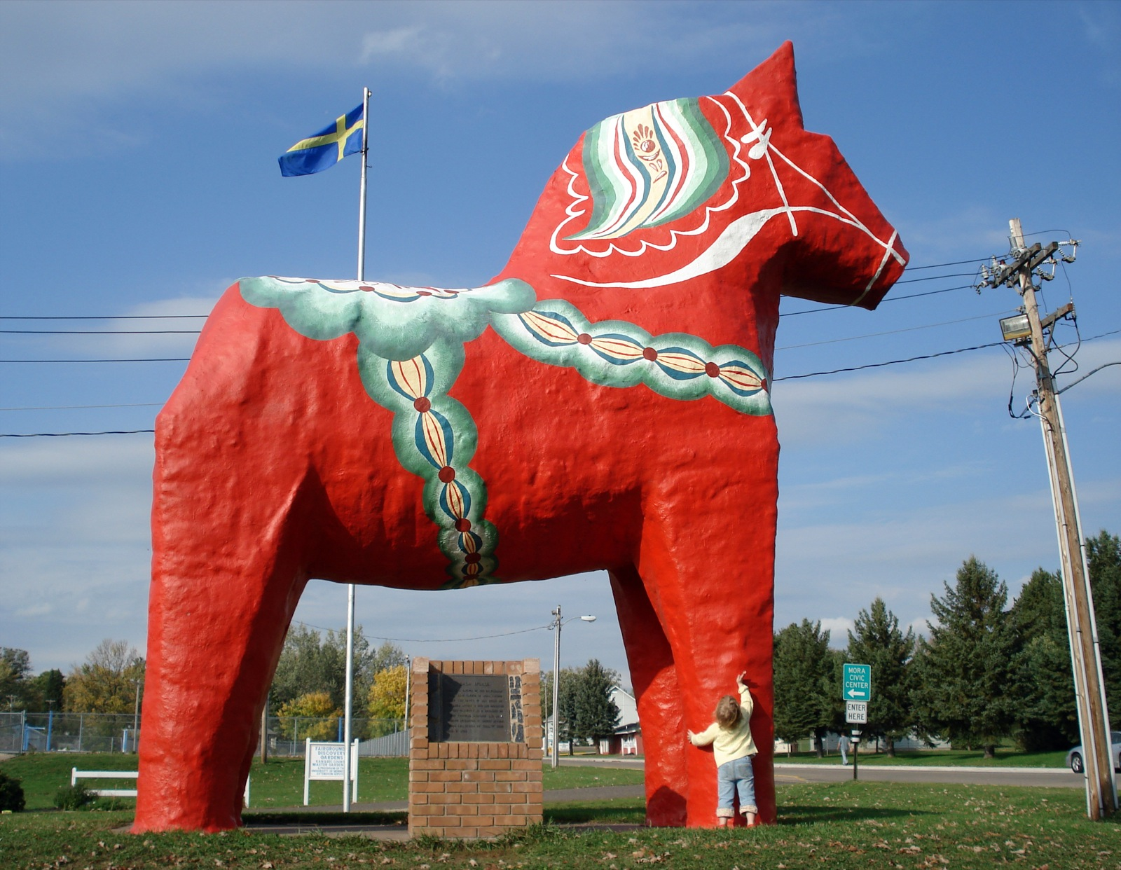 22-feet tall, 17-feet long, 6-feet wide, 3,000 lbs. A creation of F.A.S.T Corp Mora, Minnesota According to the plaque: "The statue is a replica of the Dalecarlian horses hand carved in Mora, Sweden. It was constructed and decorated in 1971 by the area Jaycees, and presented to the community as a reminder of their cultural heritage and as a tourist attraction." See part of the fiberglass casting mold There's a slightly smaller version , not made by FAST, in Grand Rapids, Minnesota